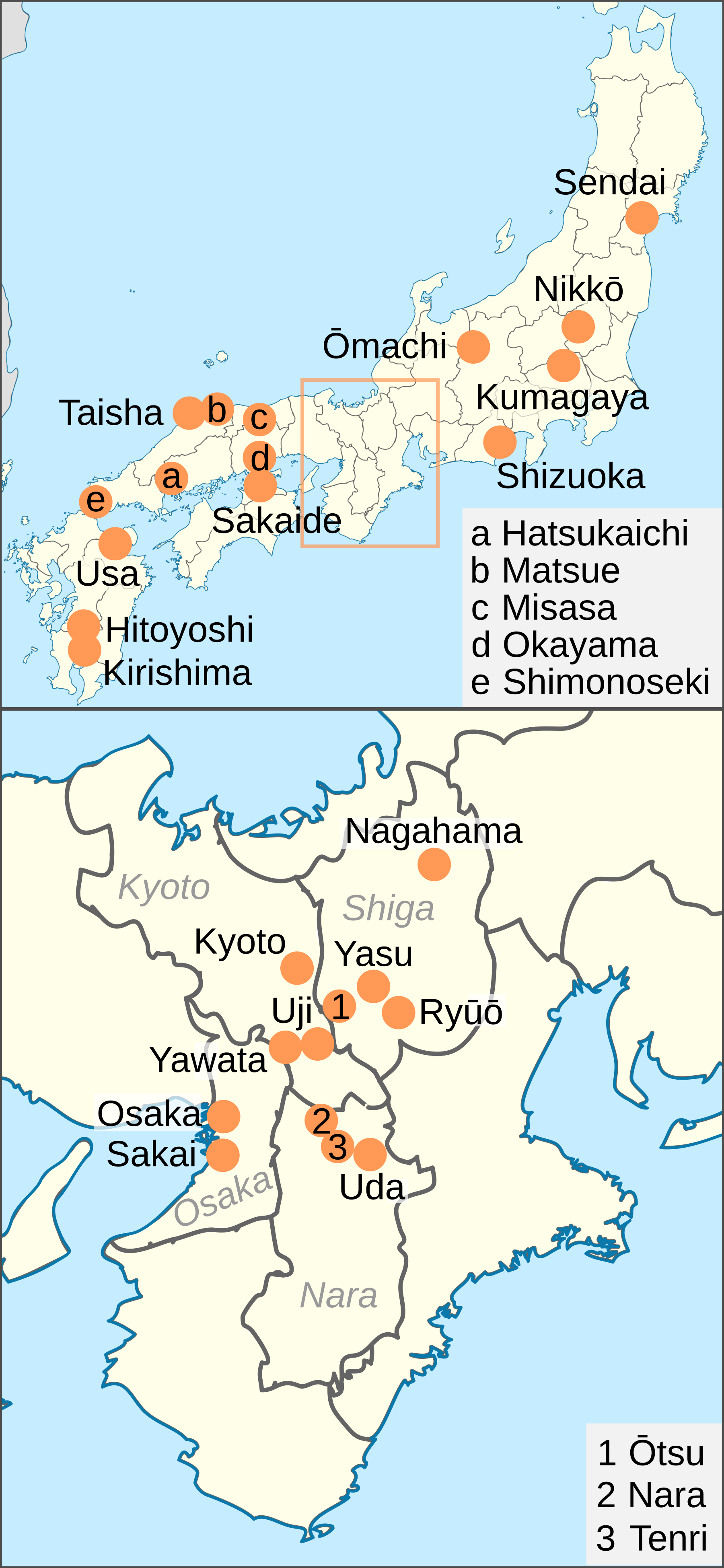 Map showing the location of National Treasures of Japan in the category shrines.